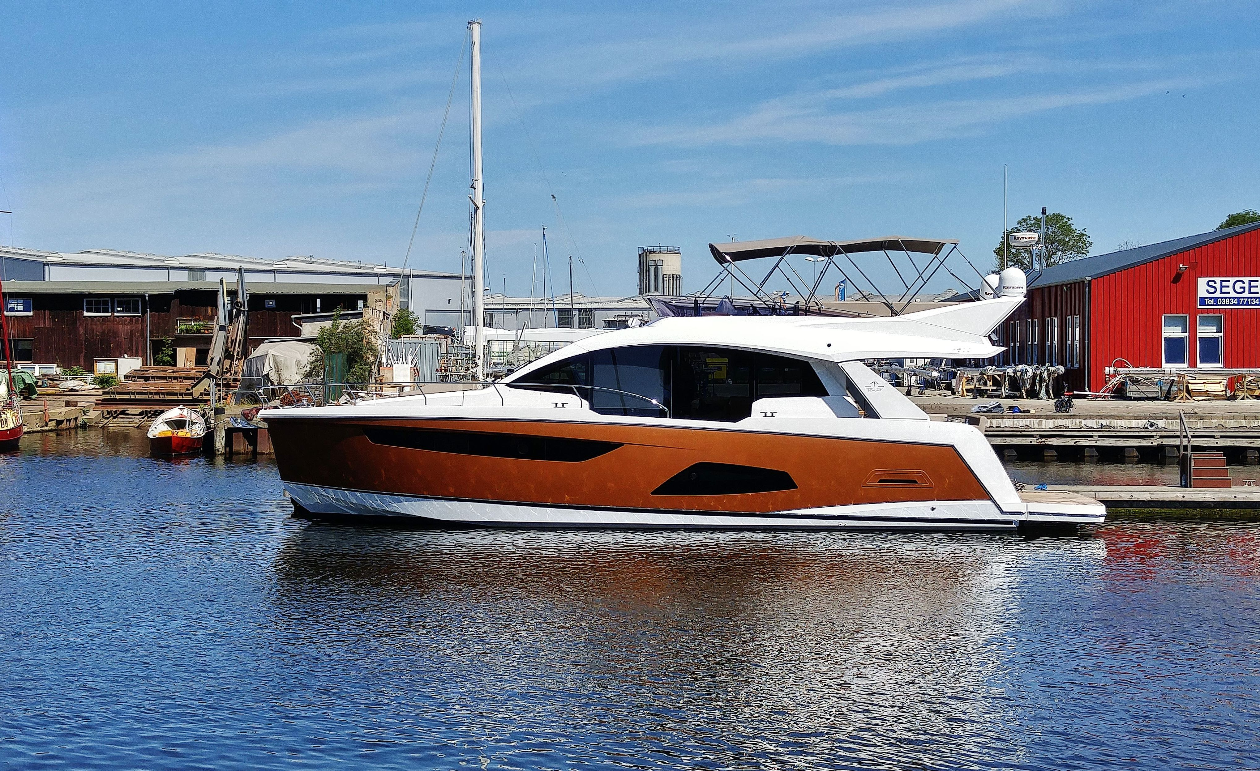 Sealine F530 in Greifswald, Germany, moored at HanseYachts jetty